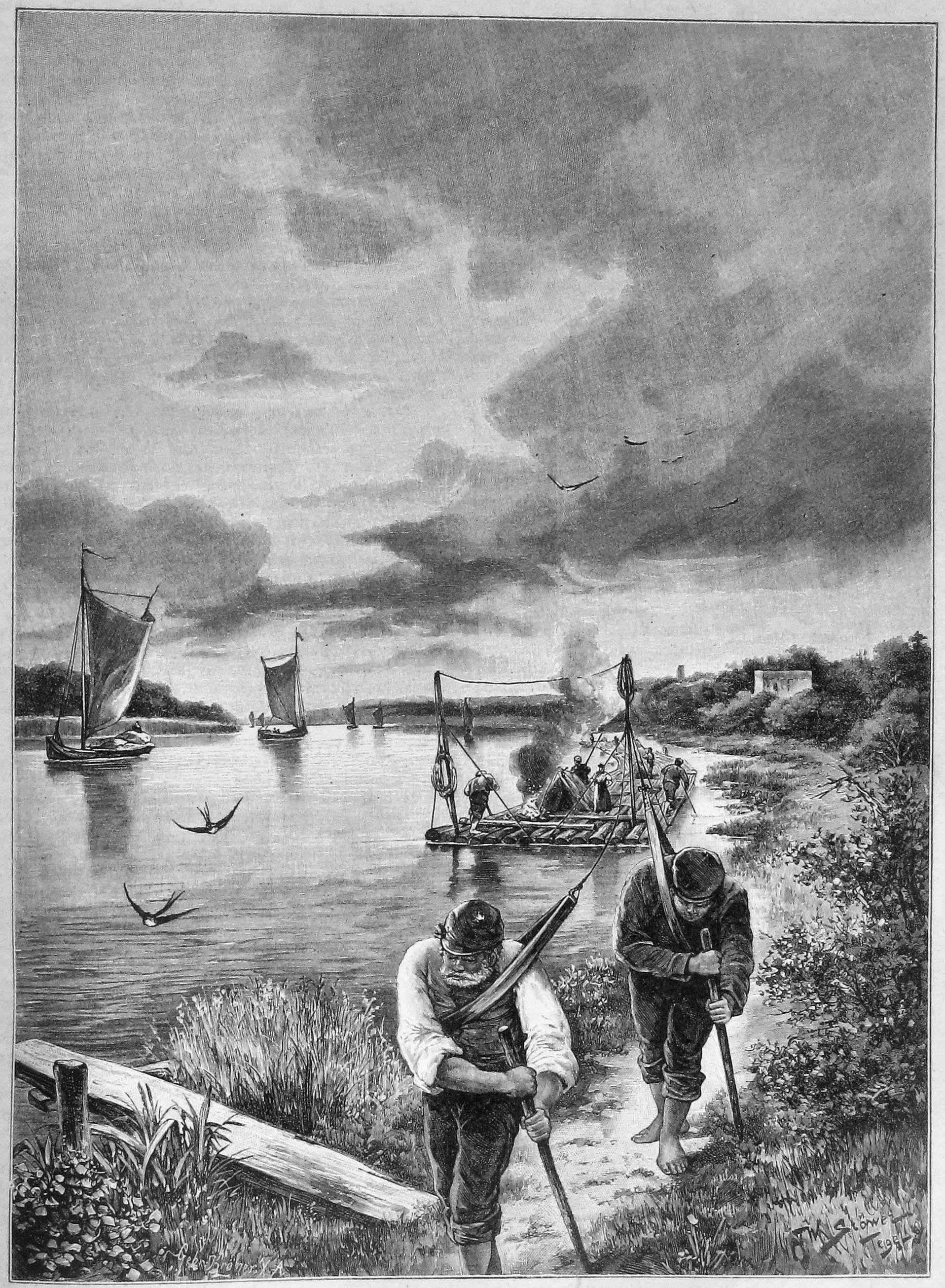 Page 501 from journal Die Gartenlaube for 1890.Extracted image (if any): File:Die Gartenlaube (1890) b 501.jpg - hi res, ~2.5 MB.